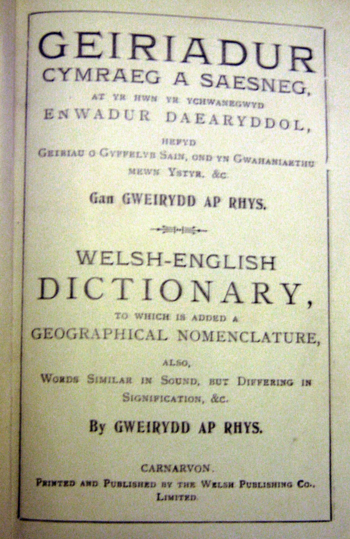 Title page of Geiriadur Cymraeg a Saesneg, a mid-19th century Welsh-English dictionary by Gweirydd ap Rhys (Robert John Pryse, 1807-1889).